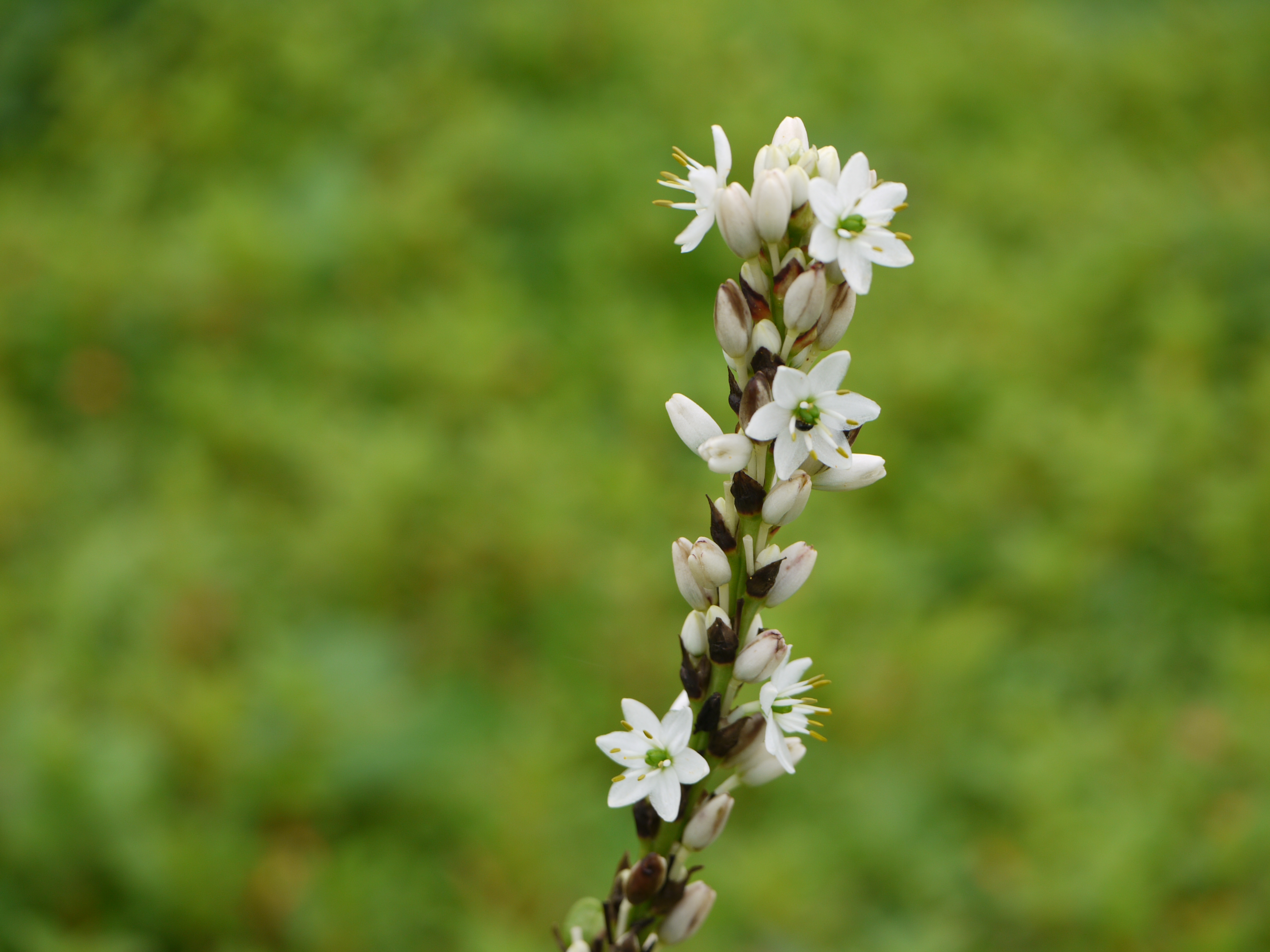 Liliaceae (lily family) » Chlorophytum glaucoides Blatt. kloh-roh-FY-tum -- from the Greek chloros (green), and phyton (plant) ... Dave's Botanary glaw-KOY-deez -- resembling blue; looks blue, and glaucous ... Dave's Botanary commonly known as: glaucous chlorophytum • Marathi: कपार मुसळी kapar musali Endemic to: northern Western Ghats (of India) References: Flowers of India • Further Flowers of Sahyadri by Shrikant Ingalhalikar